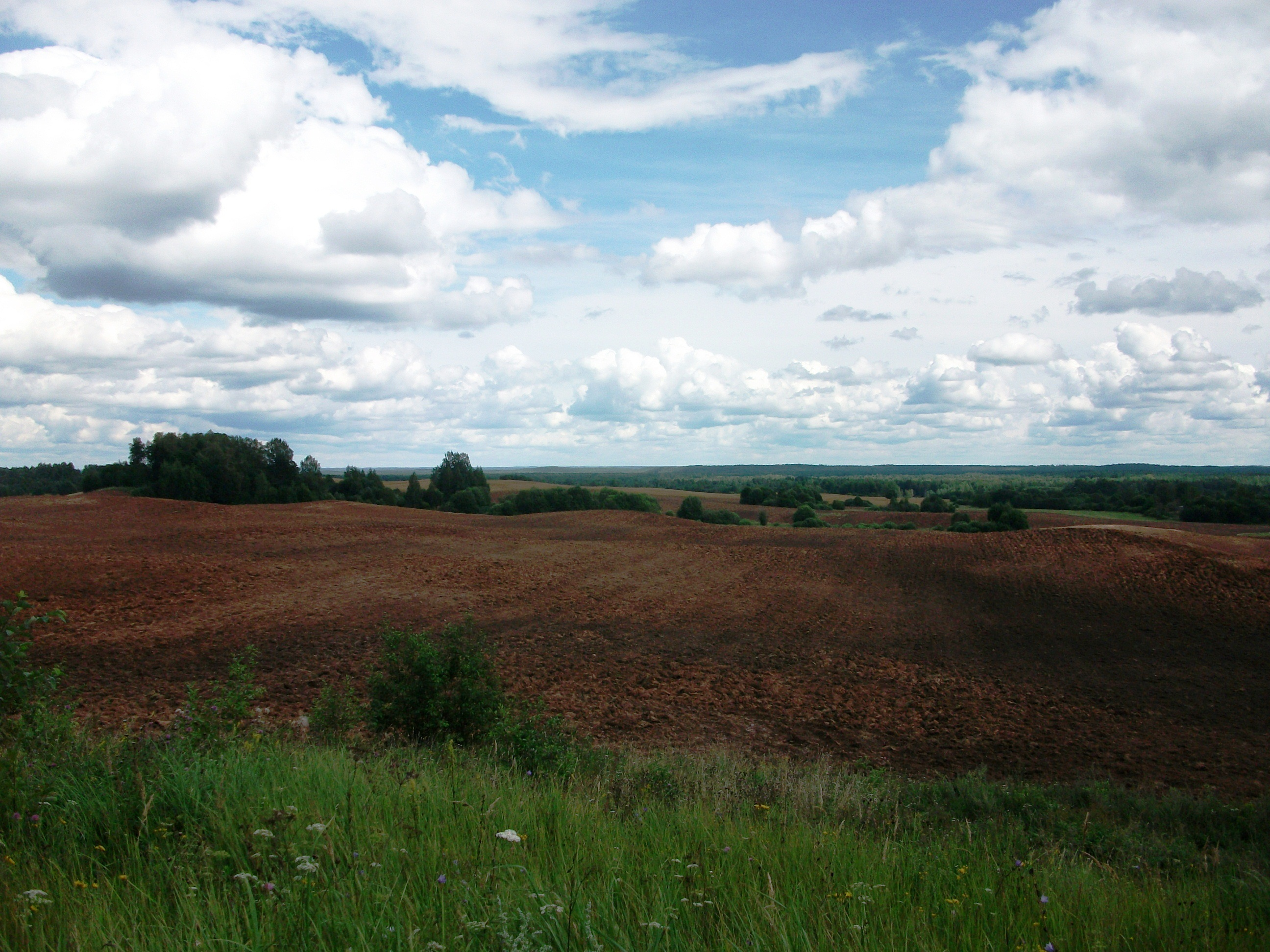 Asveyski landscape reserve, near Haradzilavichy village